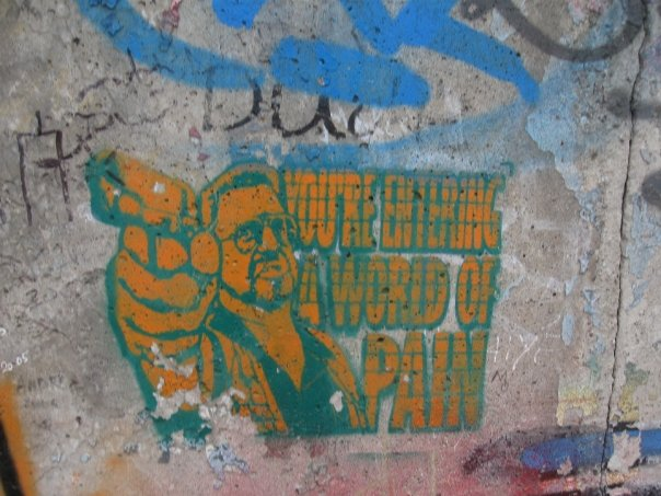 Graffiti of Walter Sobchak (John Goodman) from the Big Lebowski on the East Side Gallery of the Berlin Wall.